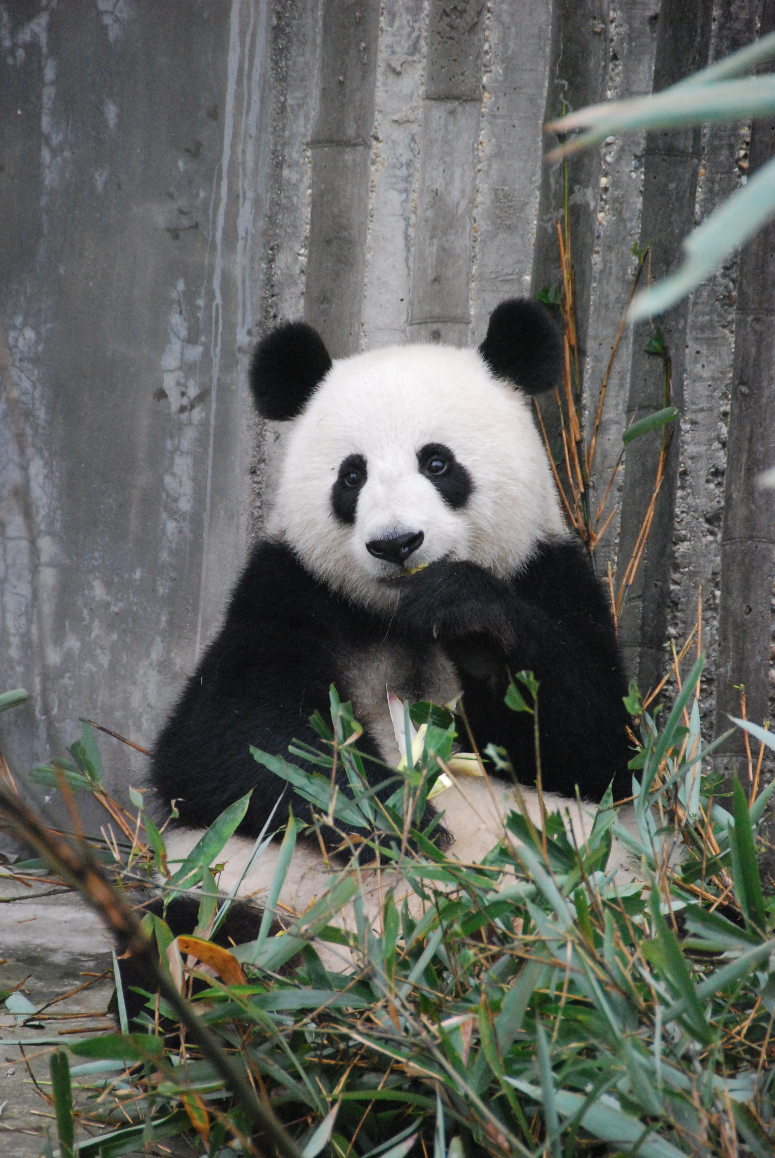 Panda eating grass while sat alone.